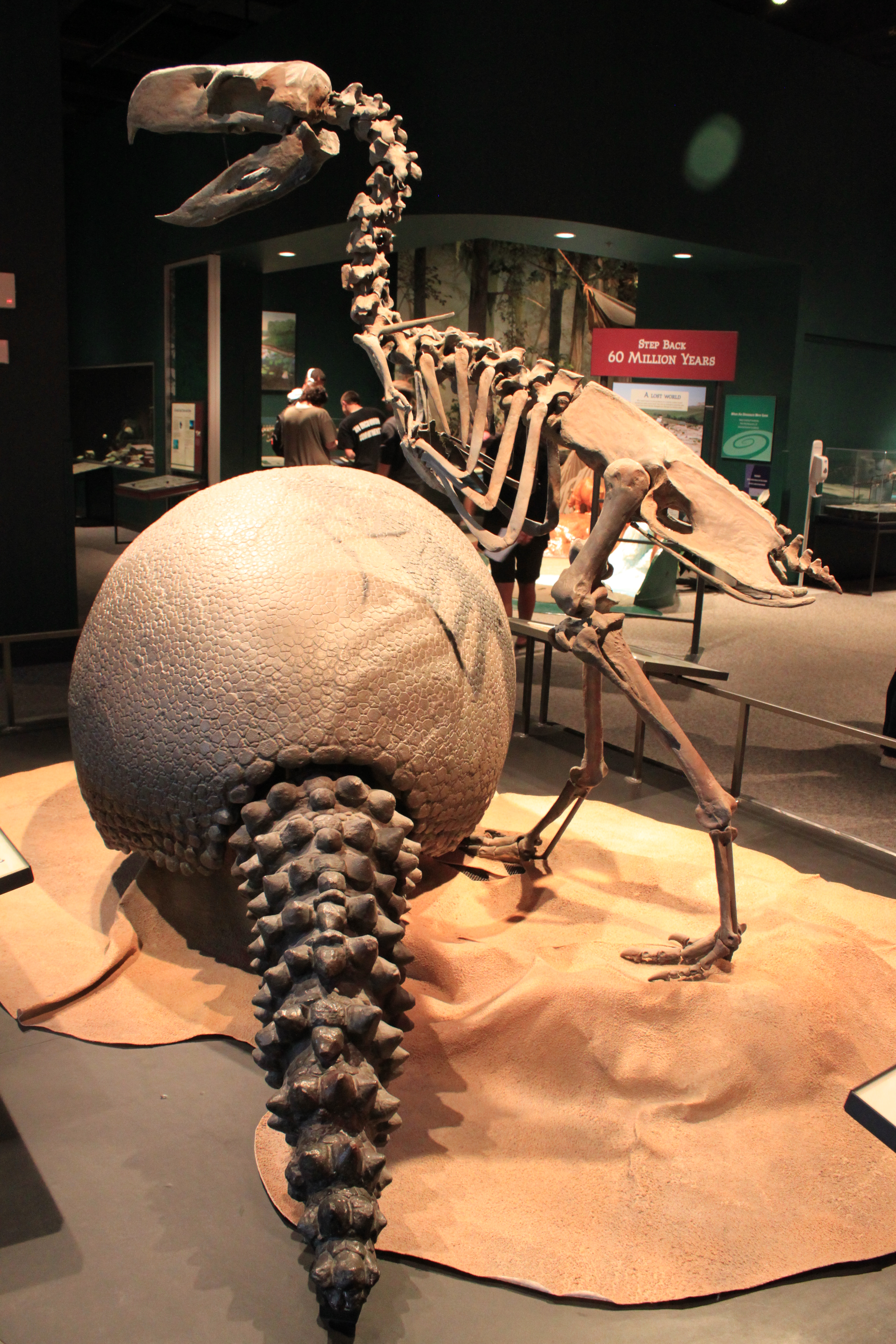 Mounted skeleton of Paraphysornis brasiliensis next to one of a glyptodont. Picture taken at the Minnosota Science Museum: Dinosaurs and Fossils Gallery.